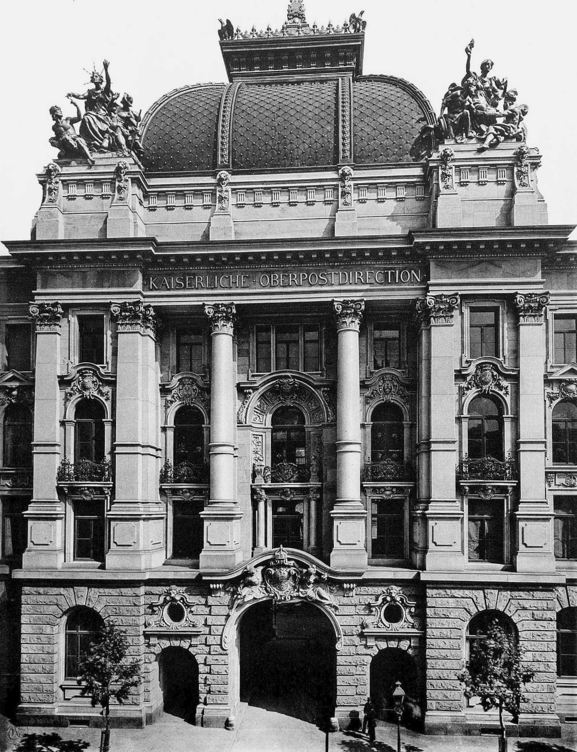 Mittelbau_der_Hauptfassade_vom_neuen_Posthaus_in_Frankfurt,_Tafel_35,_Kick_Jahrgang_II.jpg